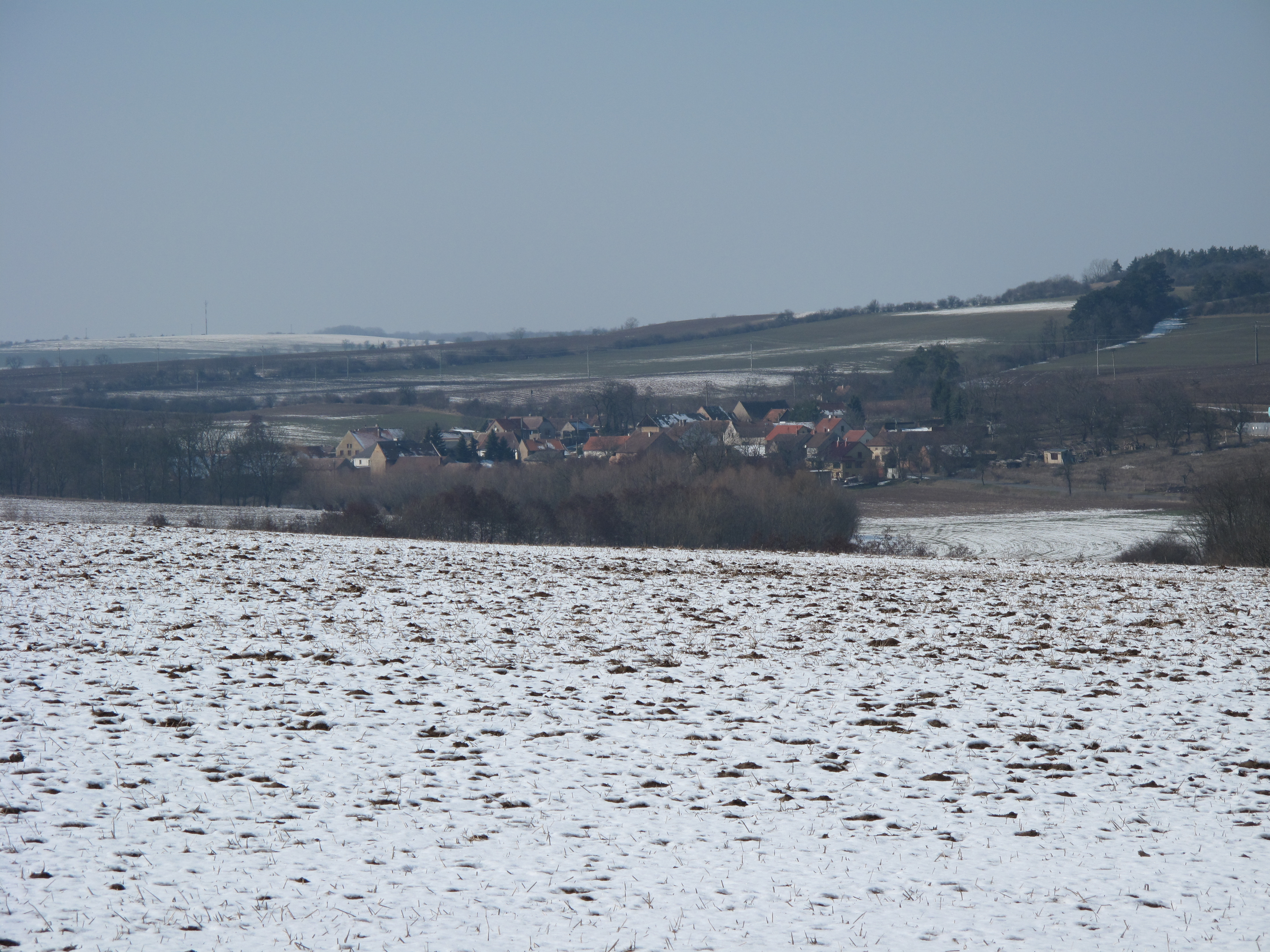 Čeradice village (Klobuky municipality) as seen from the south. Kladno District, Czech Republic.